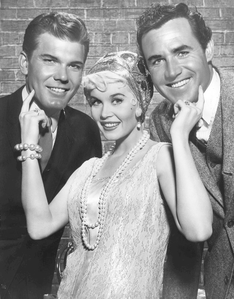 Cast photo from the television program The Roaring 20s. From left: Donald May as reporter Pat Garrison, Dorothy Provine as Pinky Pinkham, the Charleston Club singer, and Rex Reason as reporter Scott Norris.